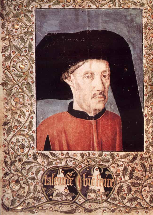 Portrait assumed to be of Portuguese prince Henry the Navigator (Infante D. Henrique), inserted as the frontispiece in a 15th C. edition of Gomes Eanes de Zurara's 1453 book Crónicas dos Feitos de Guiné.